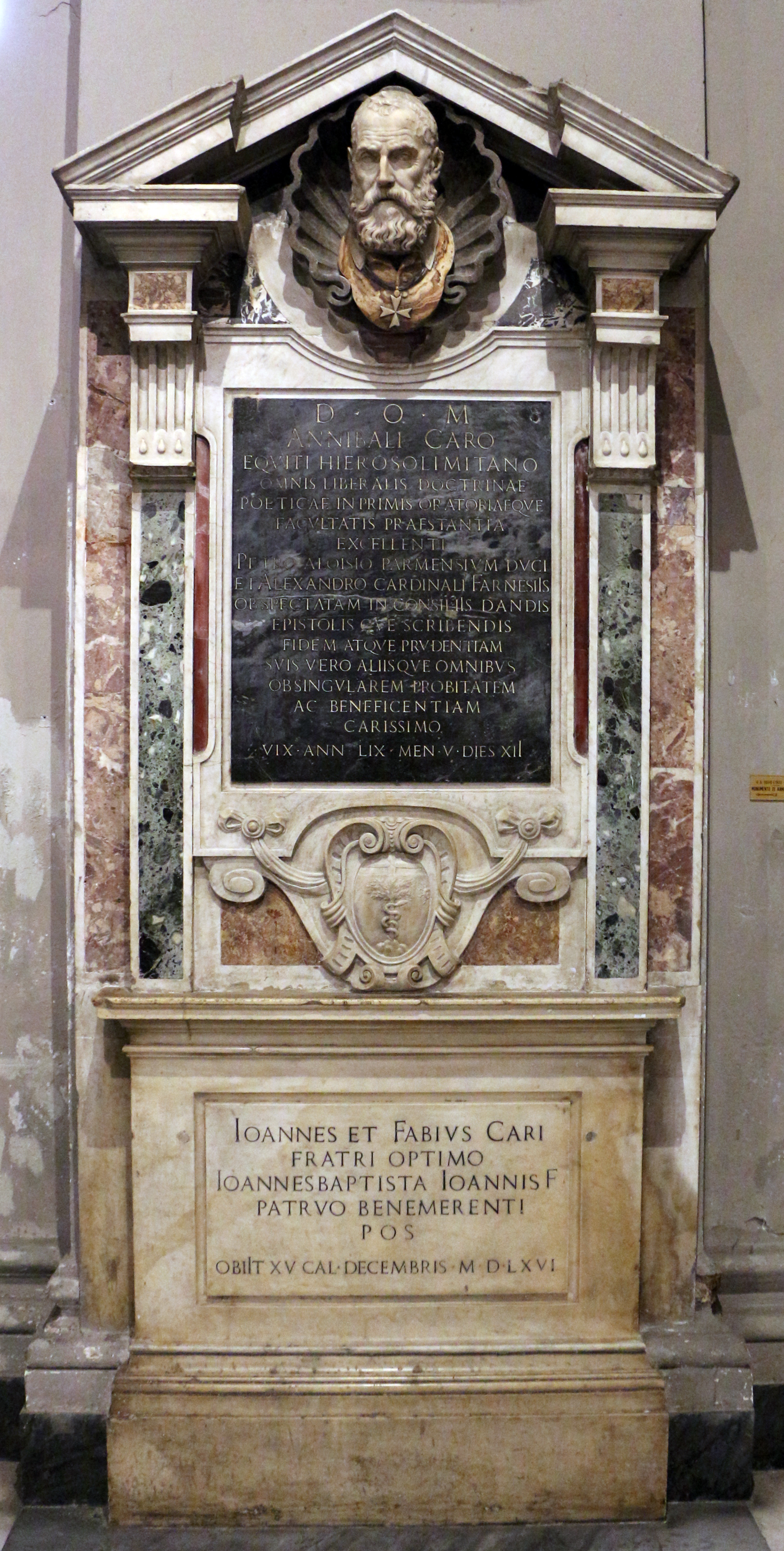 San Lorenzo in Damaso - Interior